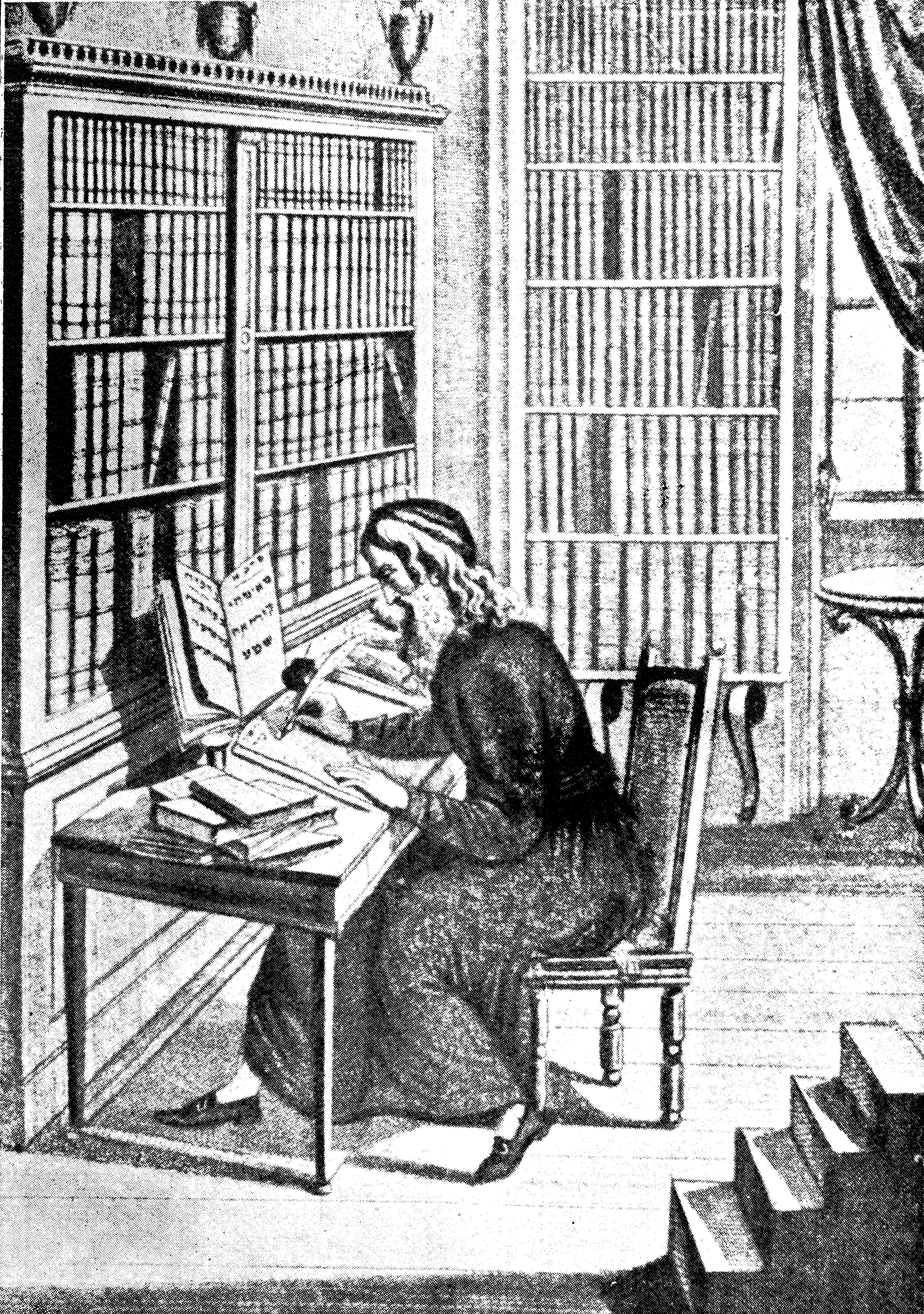 From the book Ayalon, Benzion H. Pinḳas Osṭraʼah : sefer zikaron li-ḳehilat Osṭraʼah. 1960. p.5